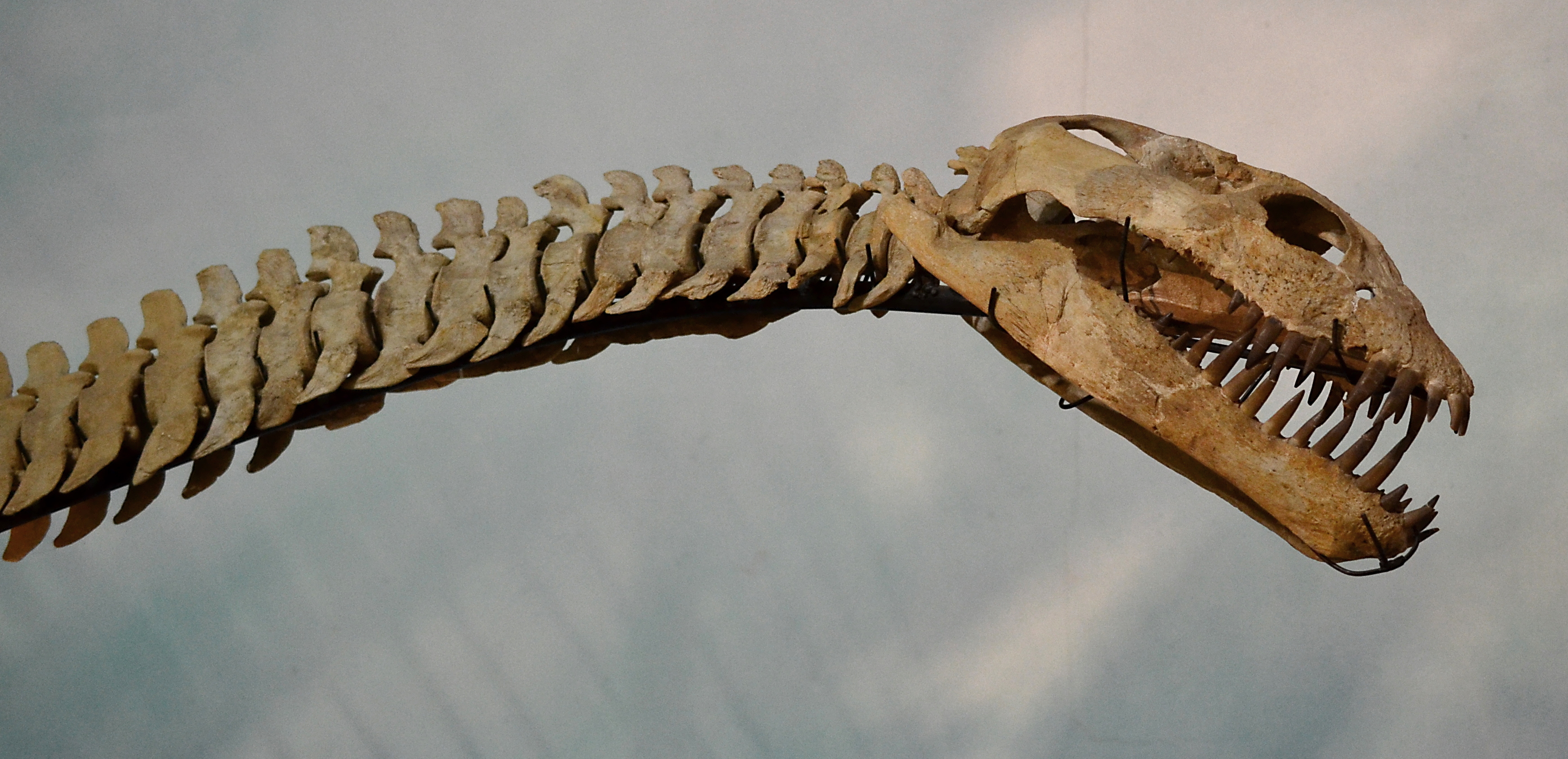 Wyoming Dinosaur Center